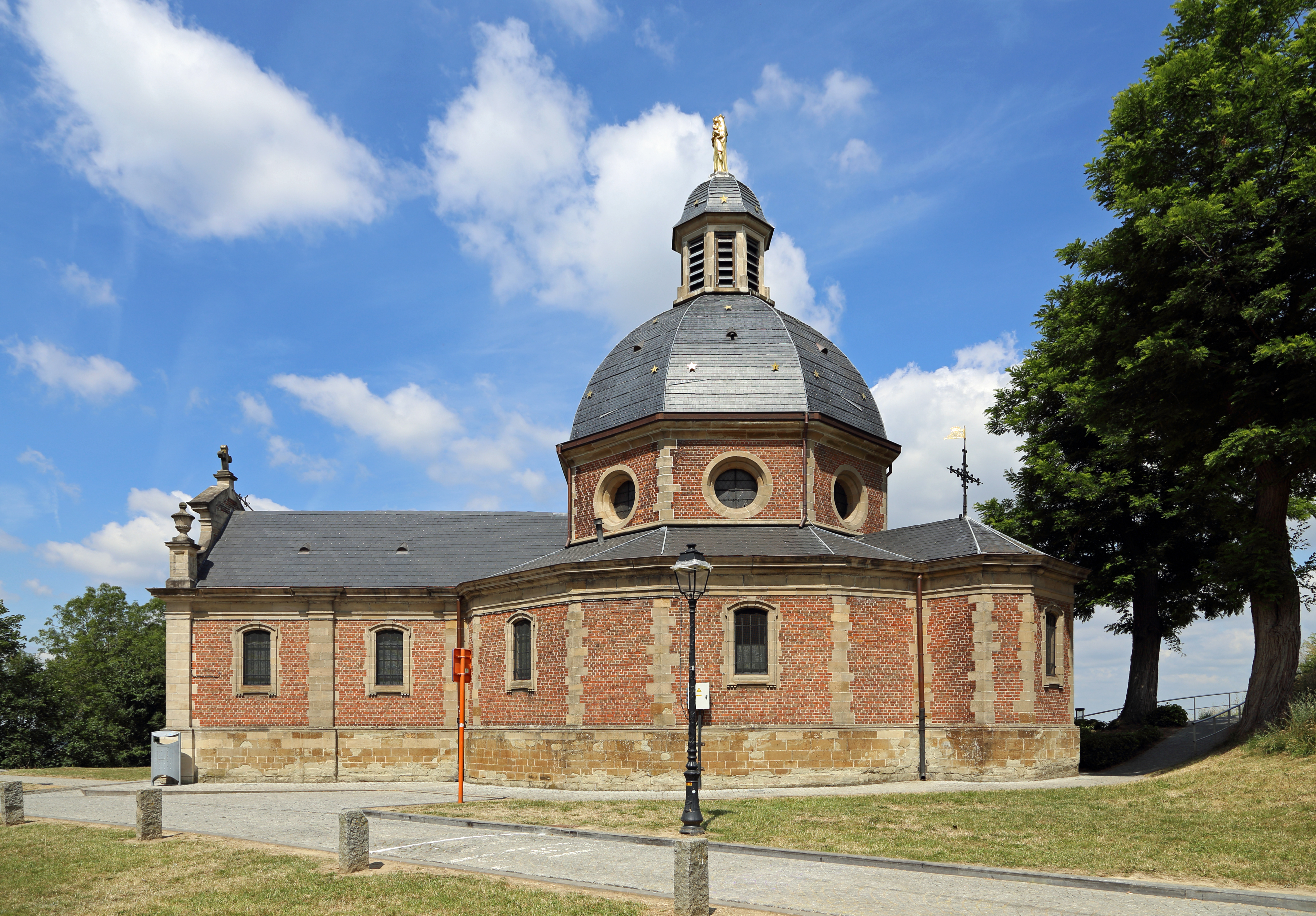 Geraardsbergen (Belgium): chapel of Our Lady of Oudeberg